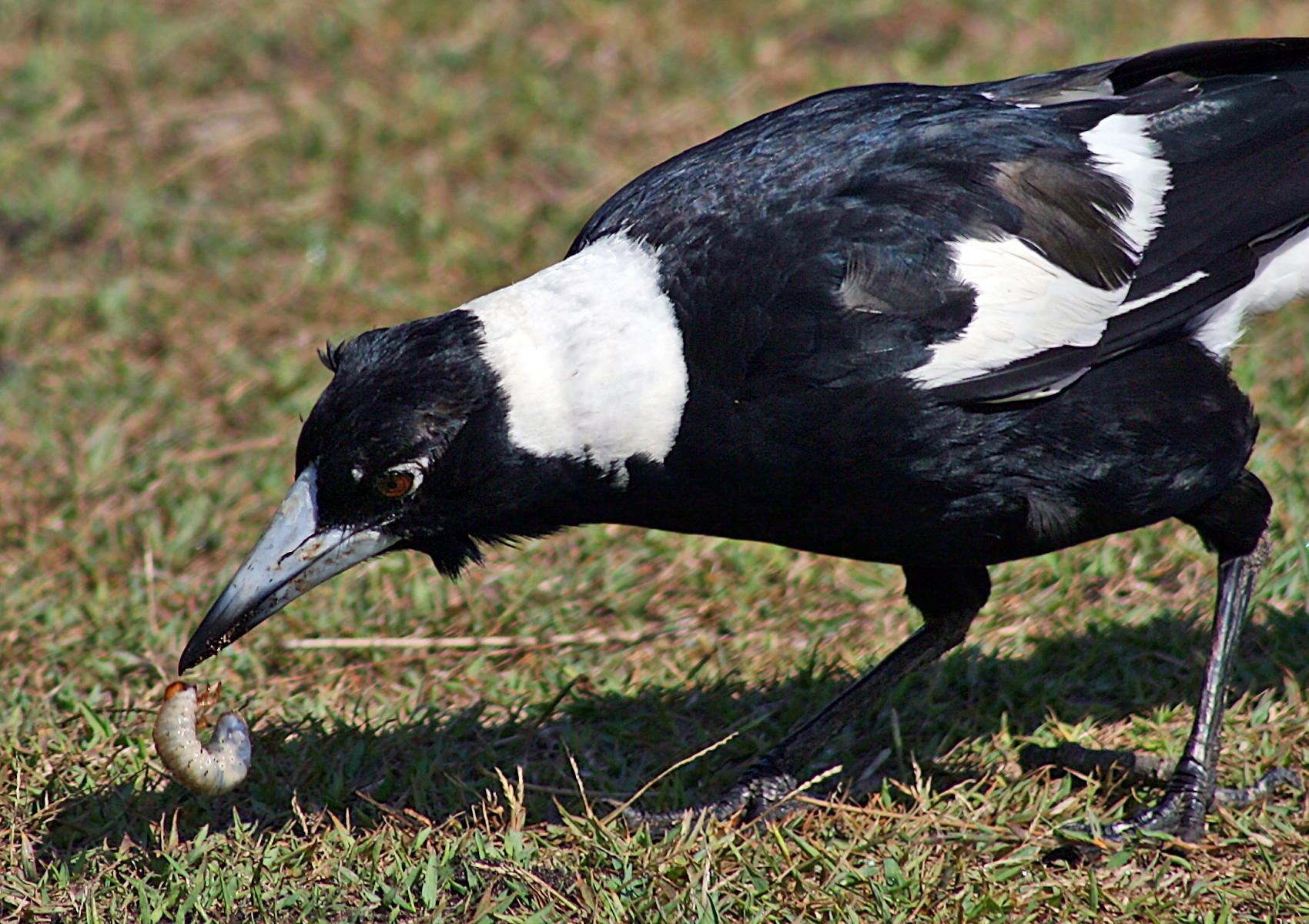 An Australian Magpie (Cracticus tibicen) digging for food, at the instant it ejects a grub.